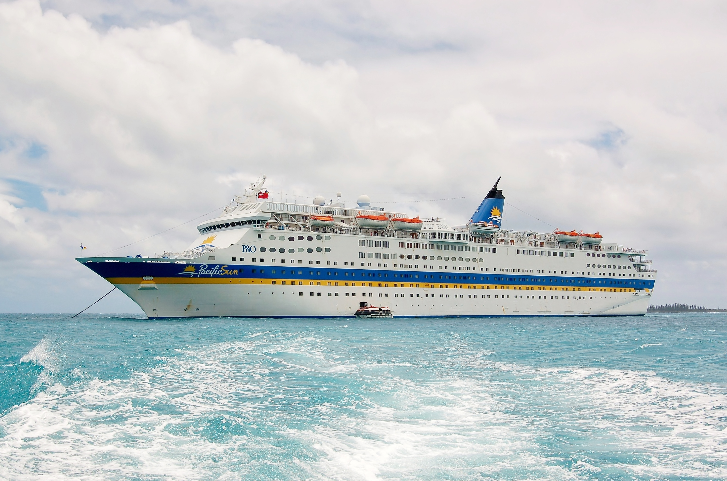 The Pacific Sun anchored between Kutema Bay and Bayonnaise at the Isle of Pines, New Caledonia.